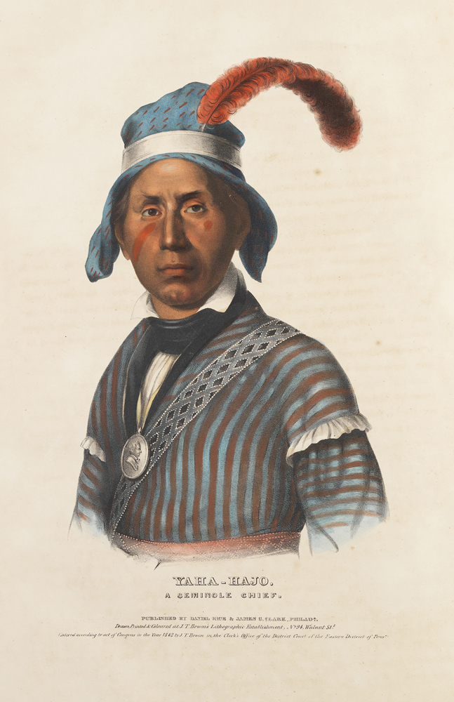 Yaha-Hajo. A Seminole Chief.